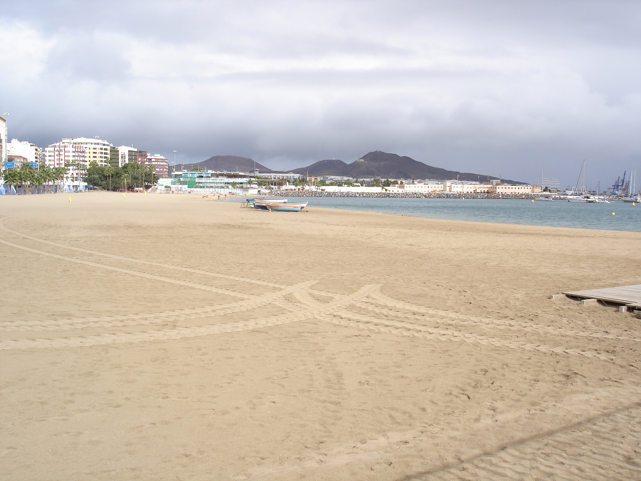 Las Alcaravaneras Beach. Las Palmas de Gran Canaria (Canary Islands, Spain).